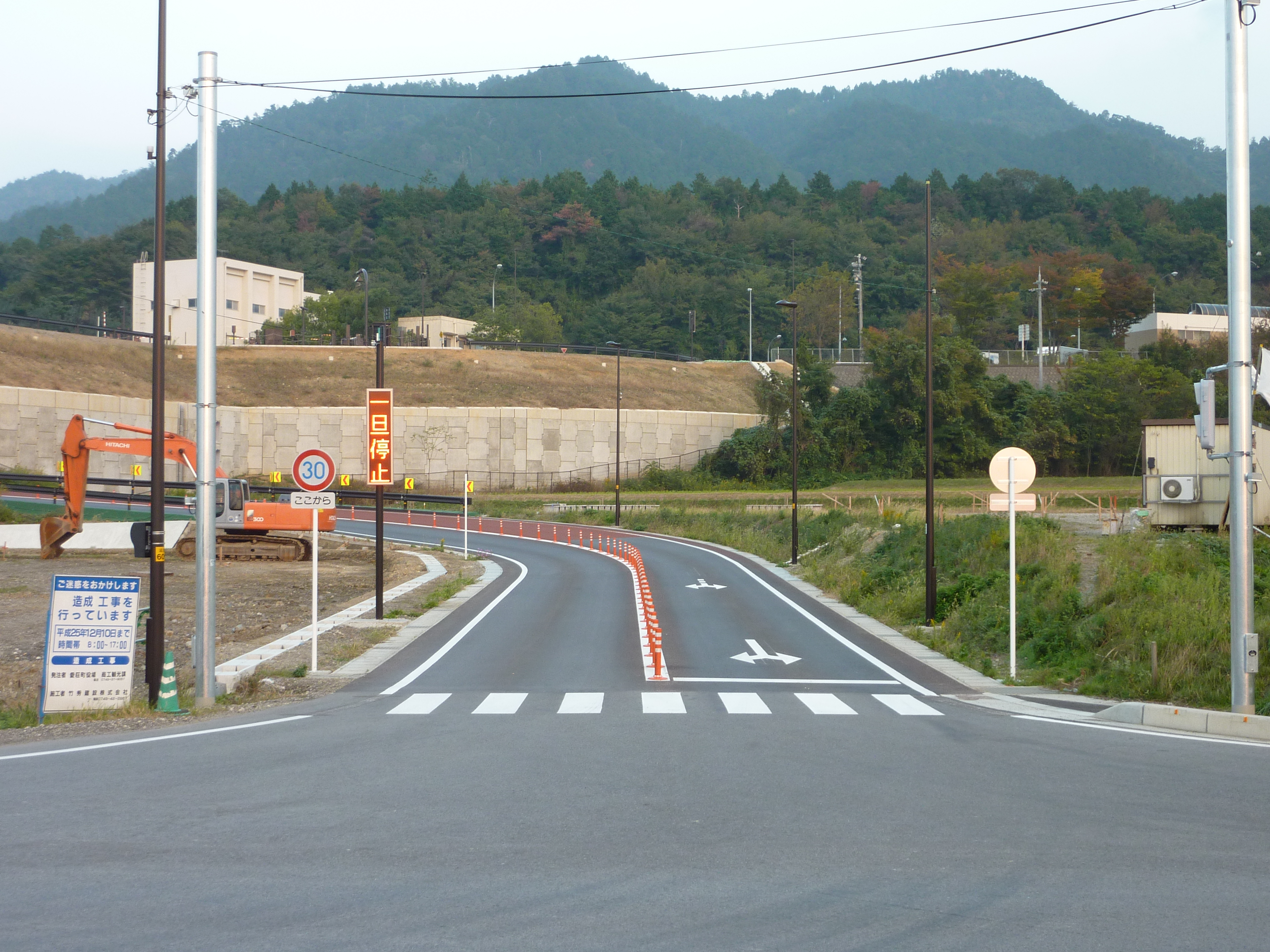 Intersection of the exit ramp from Kotosanzan Smart Interchange and the National Route 307